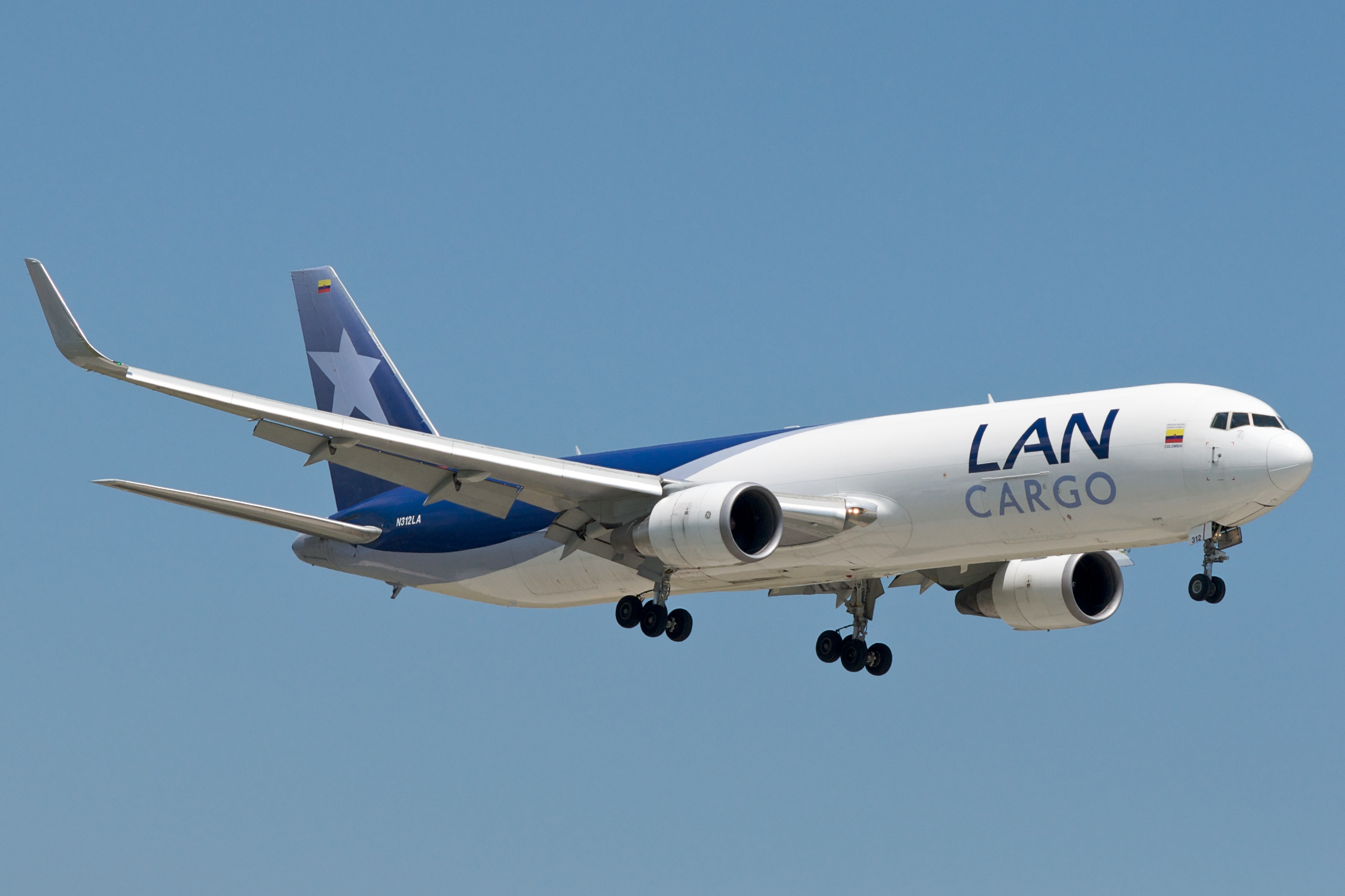 LAN Cargo 767-300F on short final, runway 9, Miami International Airport